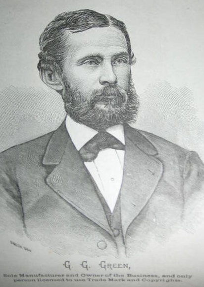 George Gill Green in 1878 Source New Jersey State Library